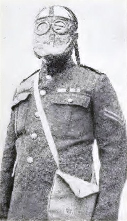 Photograph of a British soldier in a French M2 gas mask